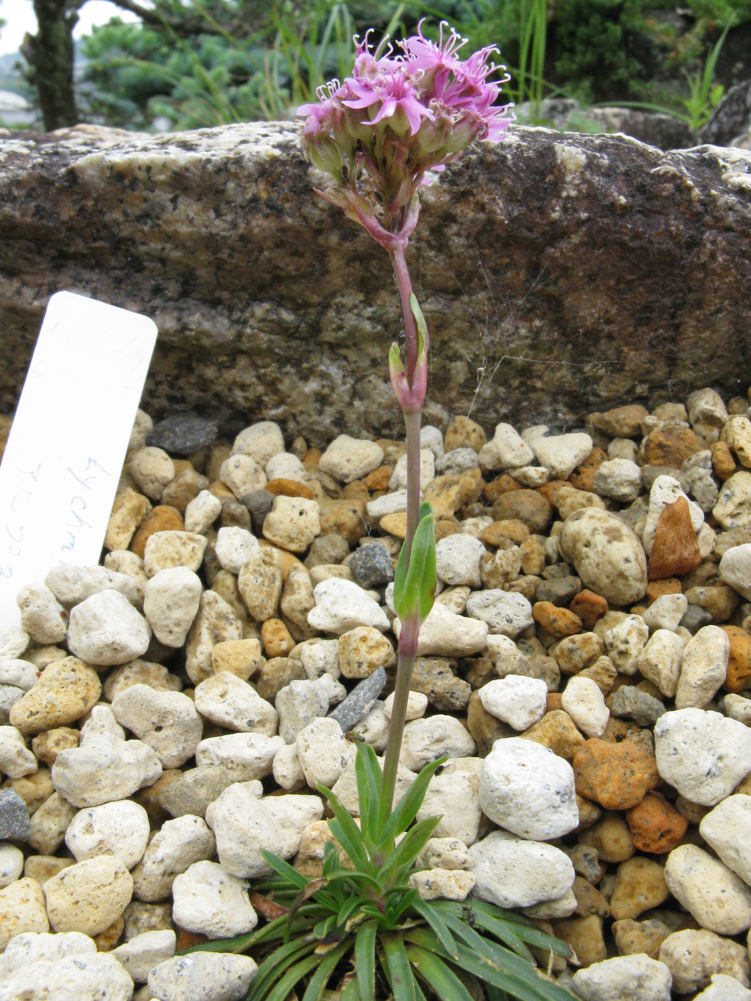 Viscaria alpina Place:Osaka Prefectural Flower Garden,Osaka,Japan